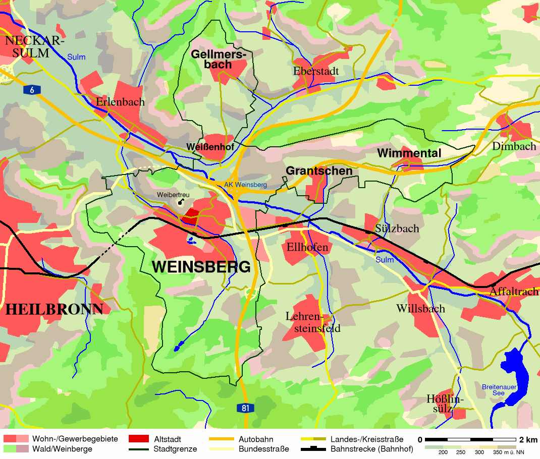 Map of Weinsberg (Germany) and surrounding area